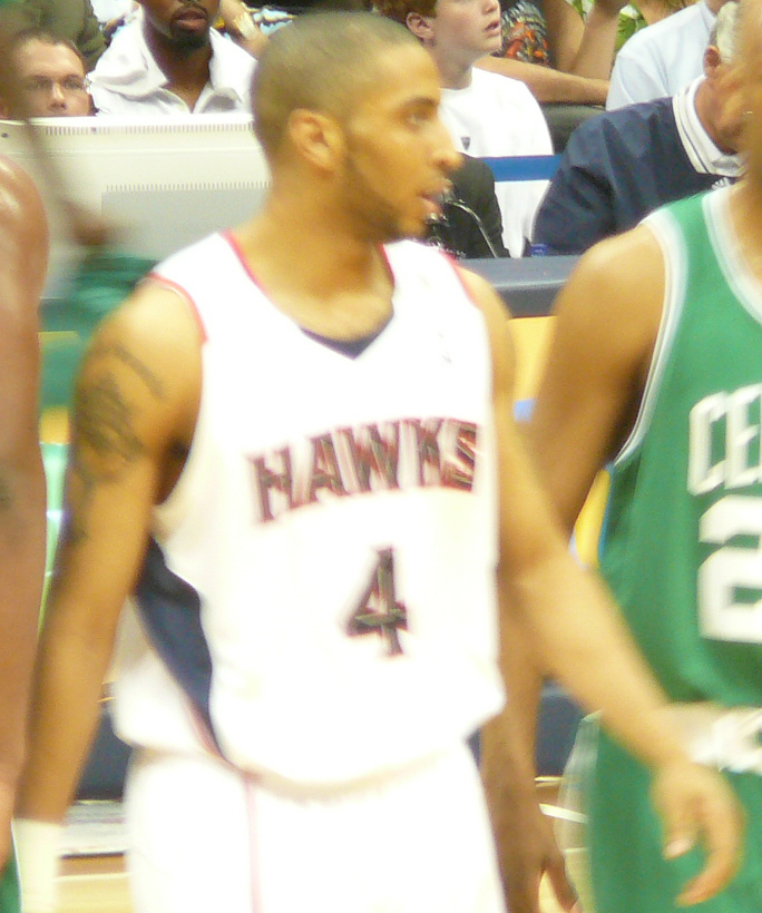 User:Chrisjnelson agreed to license this image of Acie_Law.jpg under a free attribution license.